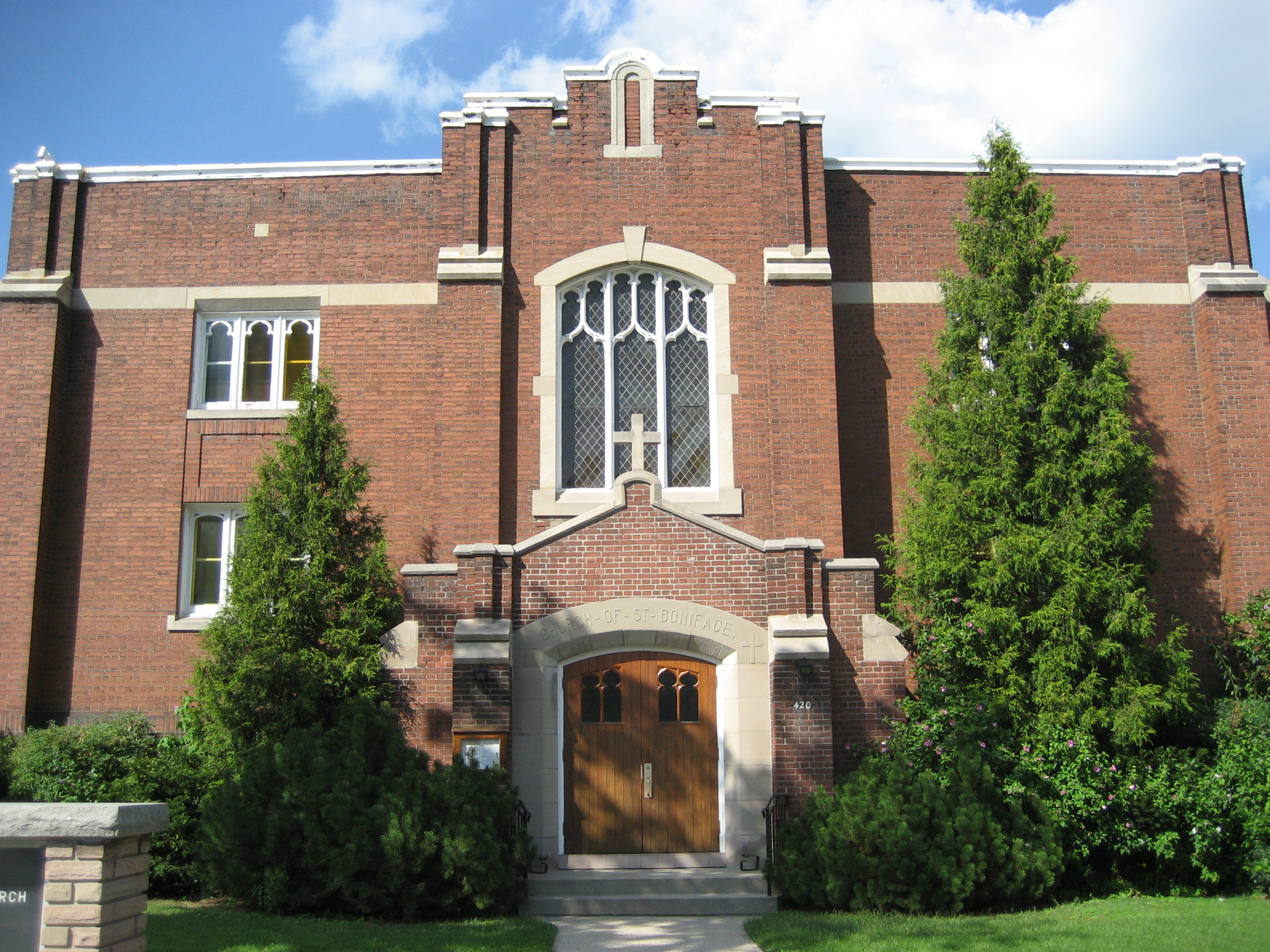 St.Boniface German Roman Catholic Church, Aberdeen Avenue, Hamilton, Canada.